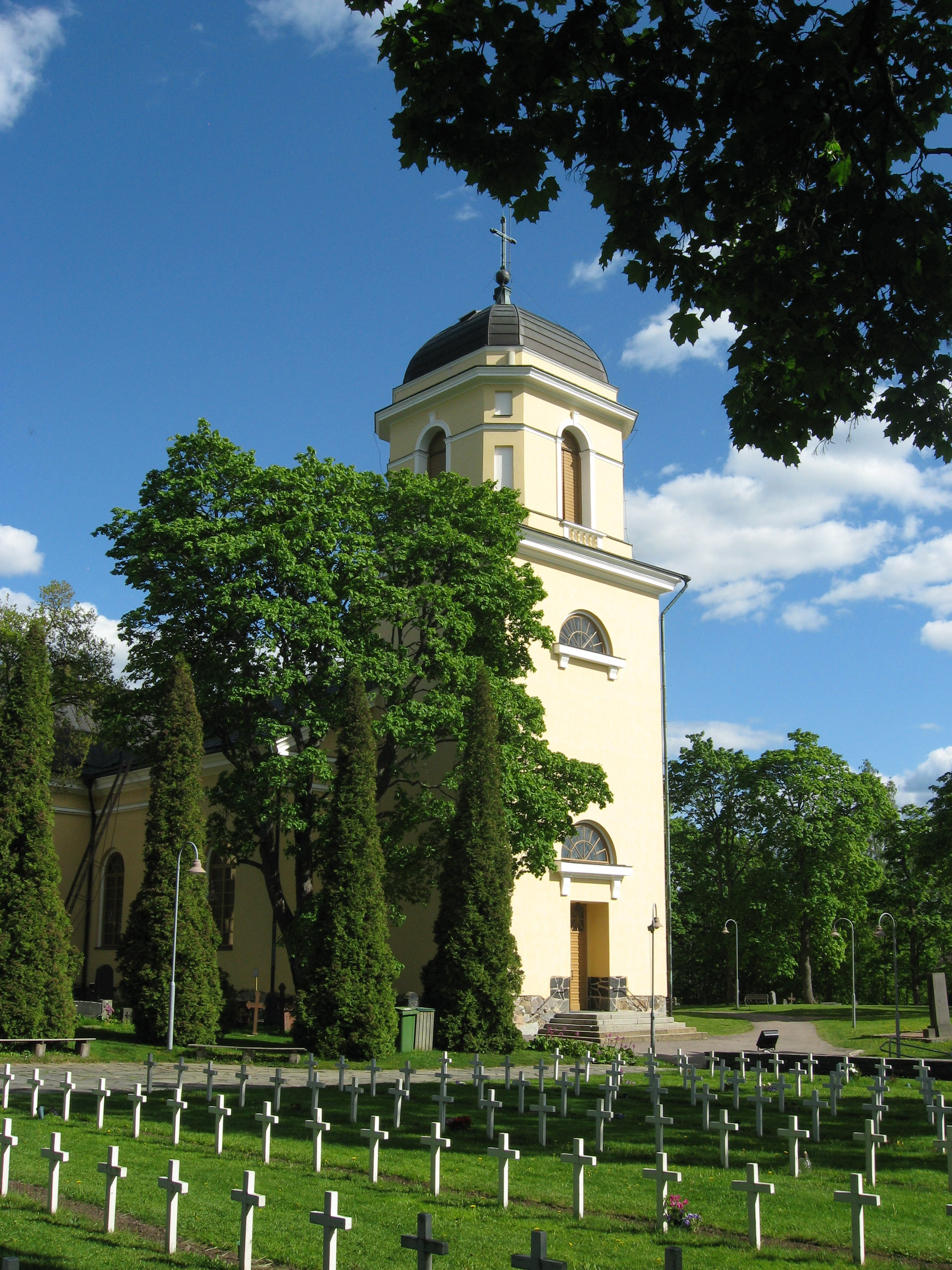 Vihti church, Vihti, Finland. Western side, main entrance.